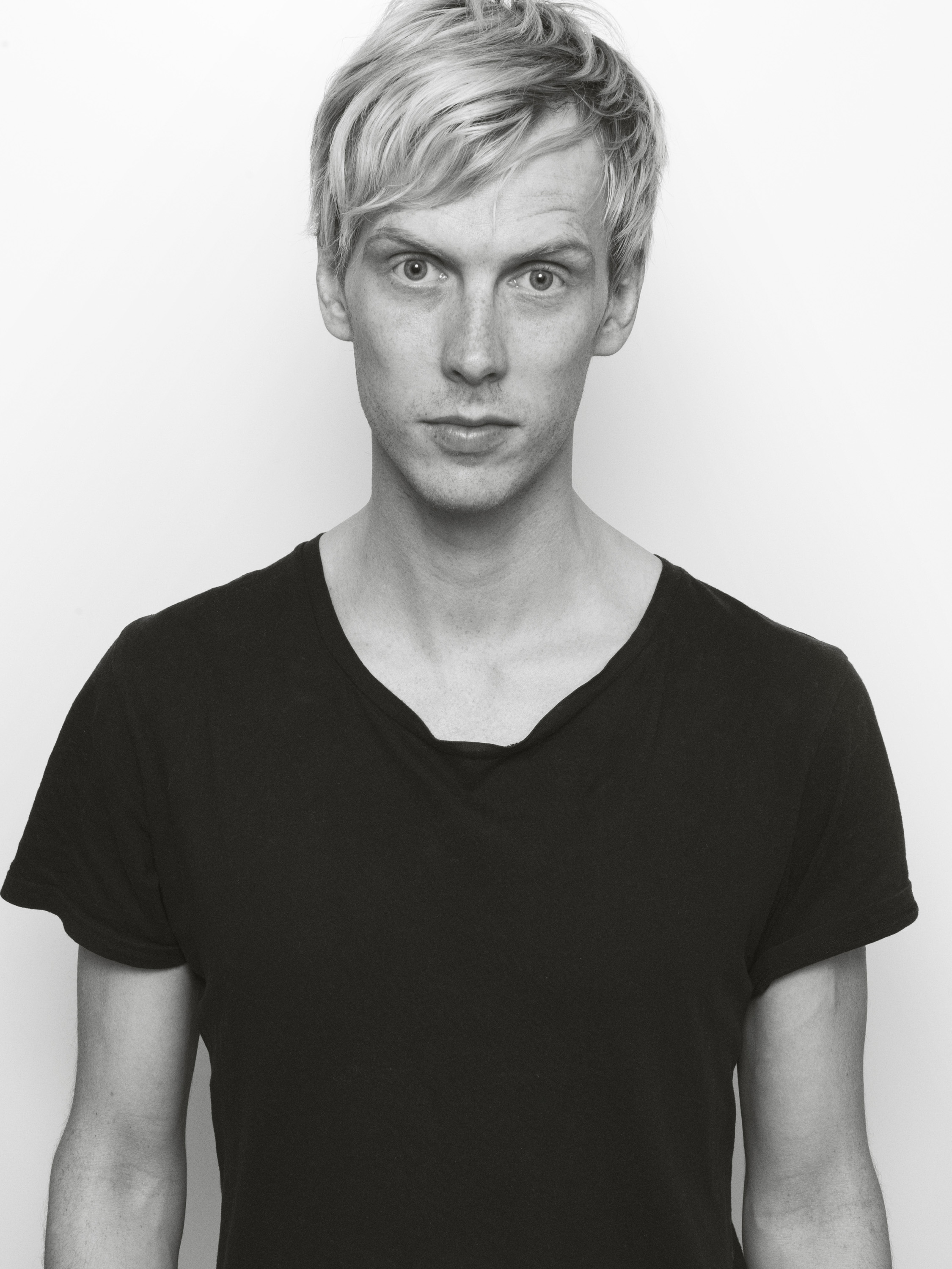 Artist Erik Johansson, an artist who creates images which appear real but with logical contradictions, as a form of photographic surrealism.